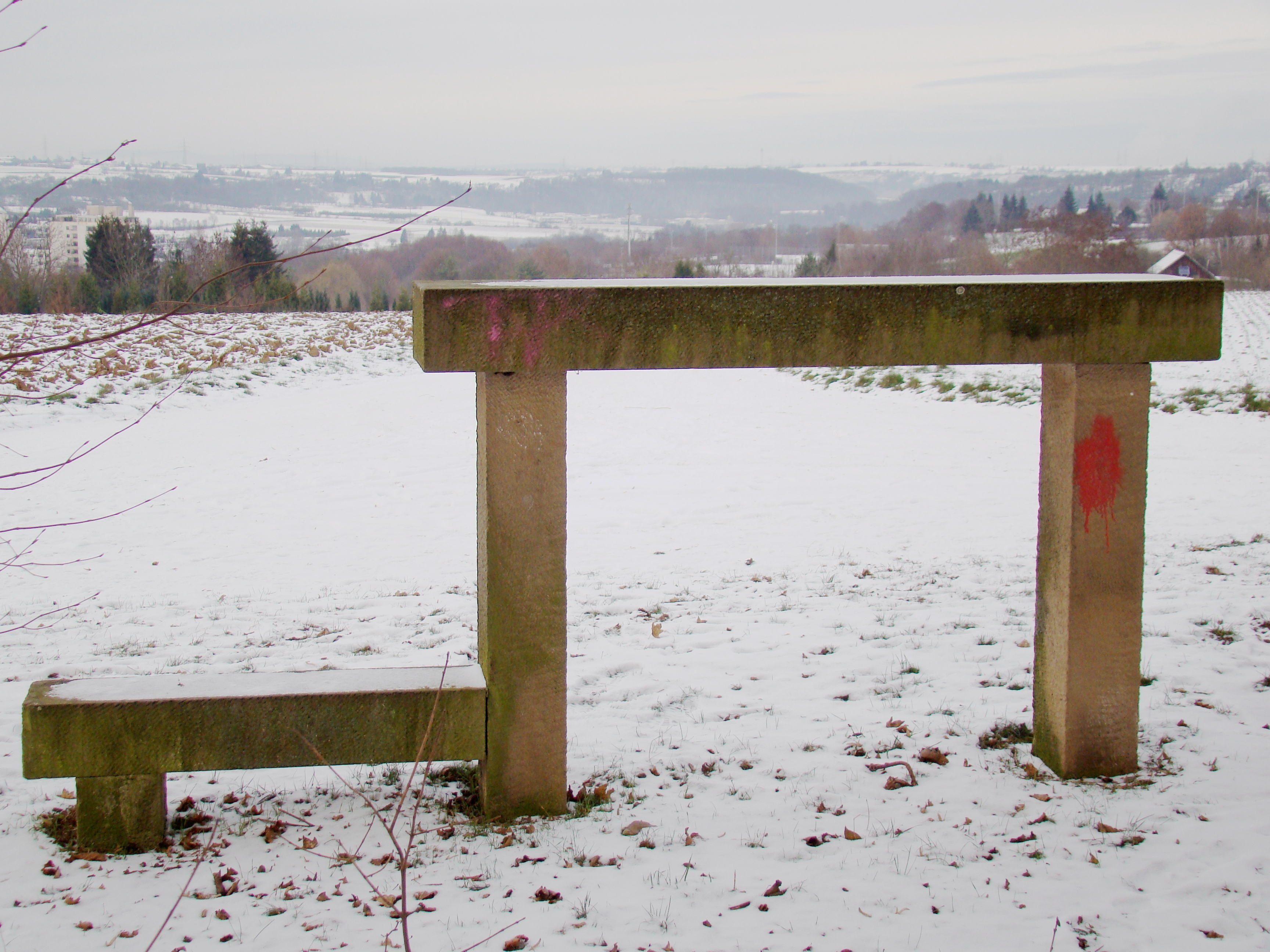 Sandstone rest bench on the heights east of Remseck am Neckar-Neckarrems